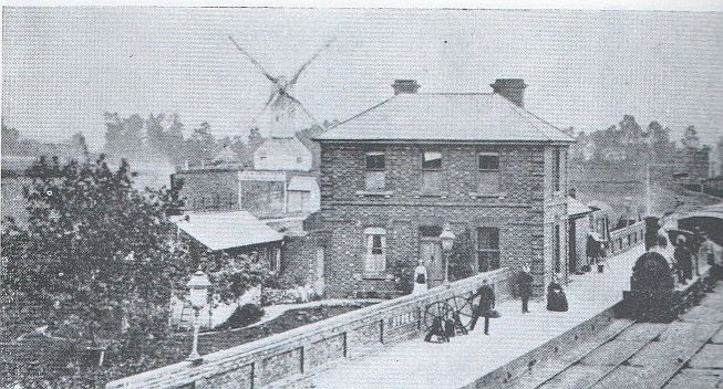 A photograph showing Stoke by Clare railway station and windmill. Dated 1864